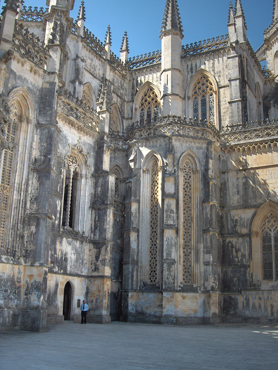 Flamboyant Gothic architecture, intermingled with Manueline style; Monastery of Batalha, Portugal